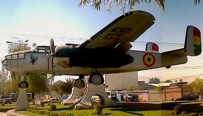 several blocks from the entrance to the airport, a Bomber North American B-25J Mitchell who served in the Air Force, Bolivia